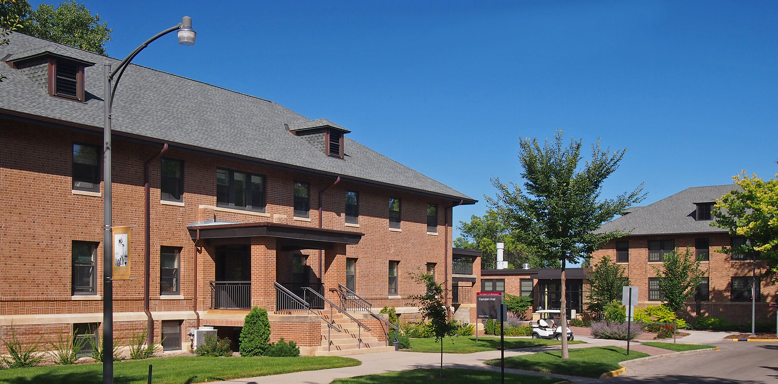 Camden Hall (left) and John Q. Imholte Hall (right), University of Minnesota Morris, Morris, Minnesota, USA. Formerly the Girls' Dormitory (1912) and Agricultural Hall (1920–21) of the West Central School of Agriculture. Viewed from the southwest.